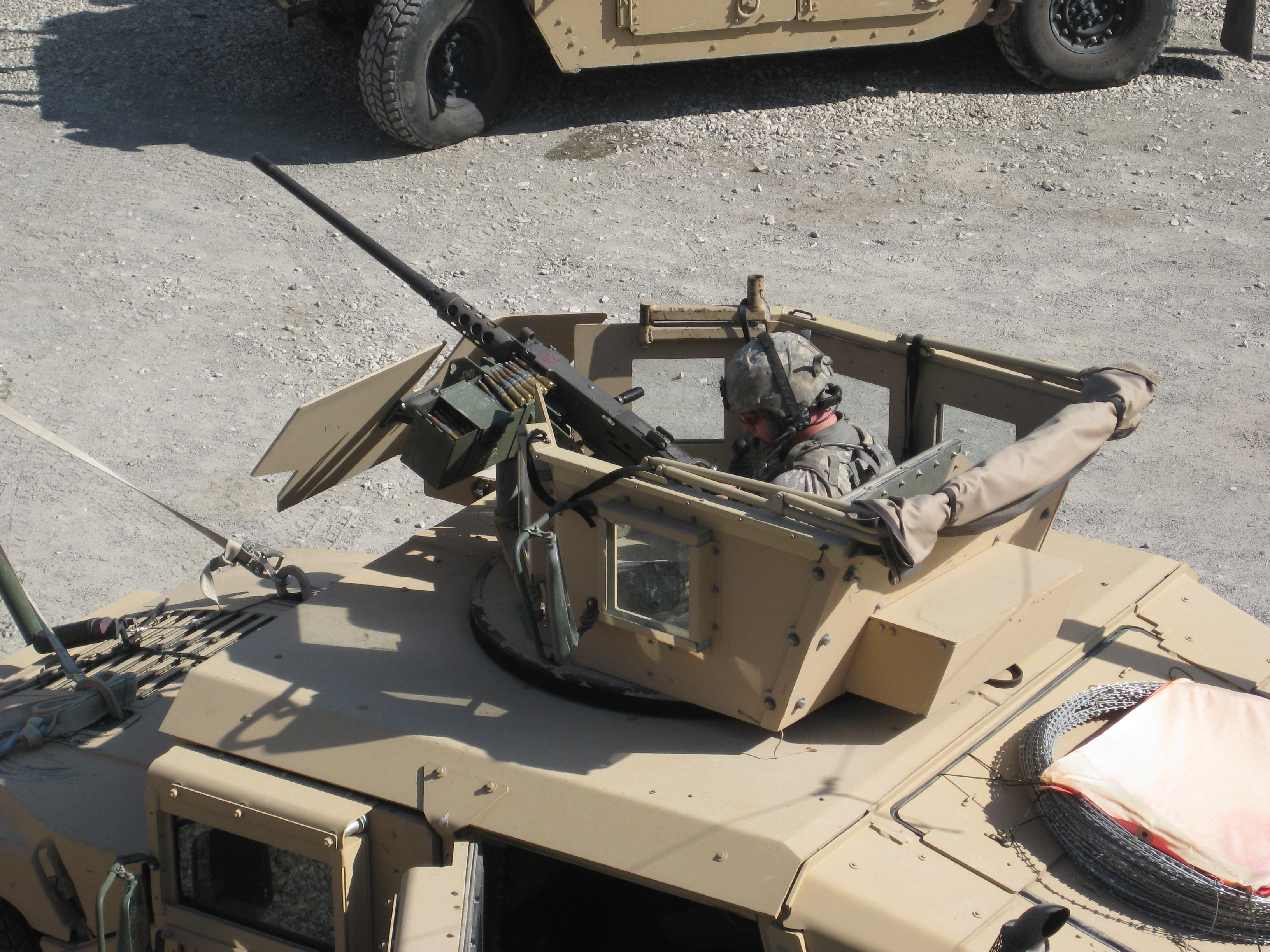 The turret up top rotates with mechanical assistance. It's weird how the HMMWV is contorting its way into an armored personnel carrier. The military did something very clever -- it brought a group of National Guardsmen who are farmers in as special advisors on agricultural reconstruction. They came by the Taj for an informal briefing on our work, and I was really impressed with their knowledge, insight, and compassion for the Afghans.